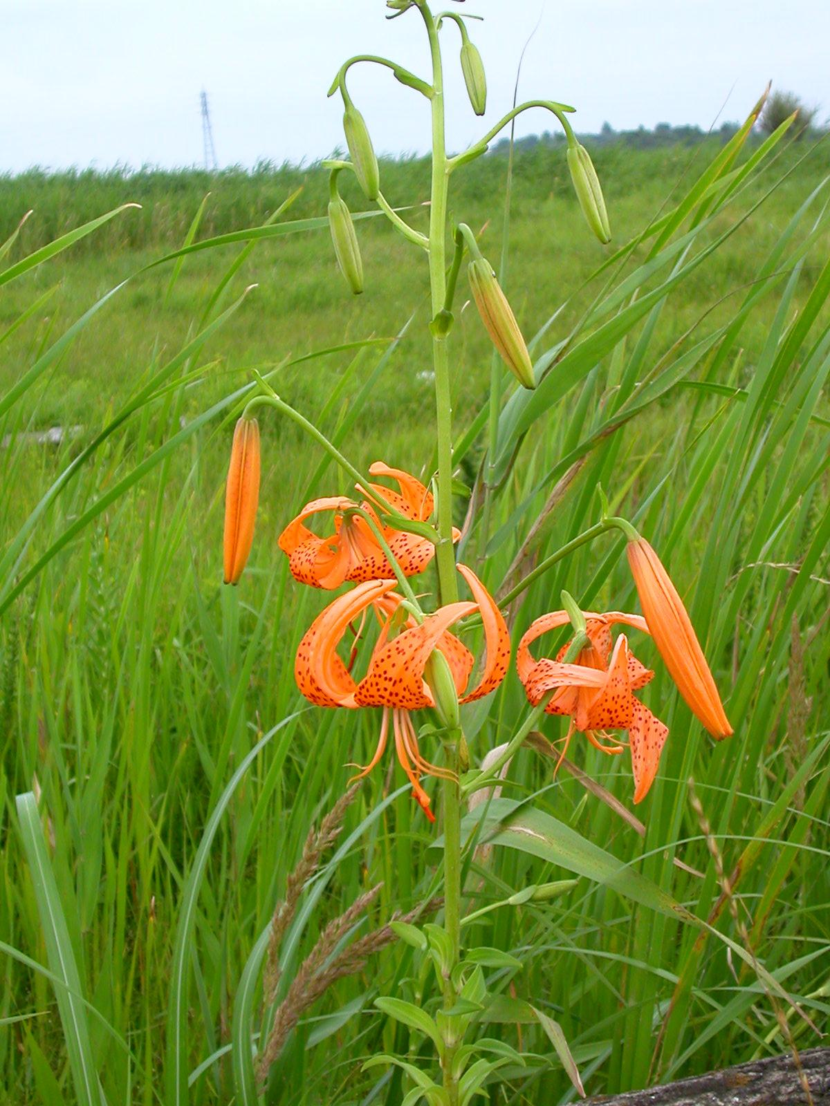 Lilium leichtlinii var. maximowiczii